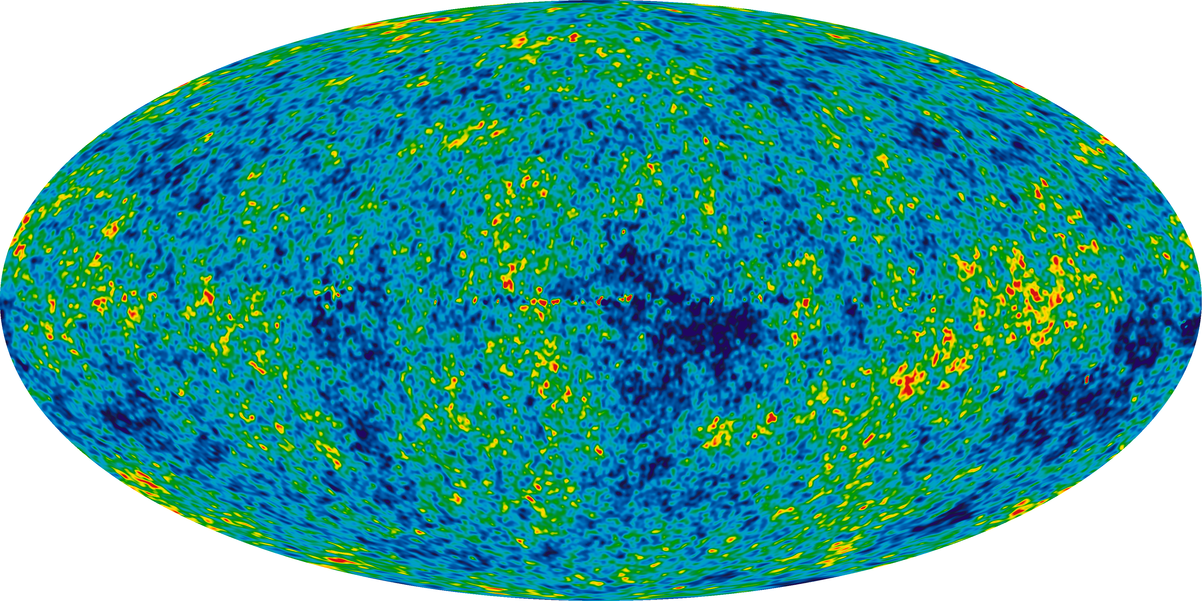 The Cosmic Microwave Background temperature fluctuations from the 7-year Wilkinson Microwave Anisotropy Probe data seen over the full sky. The image is a mollweide projection of the temperature variations over the celestial sphere.The average temperature is 2.725 Kelvin degrees above absolute zero (absolute zero is equivalent to -273.15 ºC or -459 ºF), and the colors represent the tiny temperature fluctuations, as in a weather map. Red regions are warmer and blue regions are colder by about 0.0002 degrees. This map is the ILC (Internal Linear Combination) map, which attempts to subtract out noise from the galaxy and other sources. The technique is of uncertain reliability, especially on smaller scales [1], so other maps are typically used for detailed scientific analysis